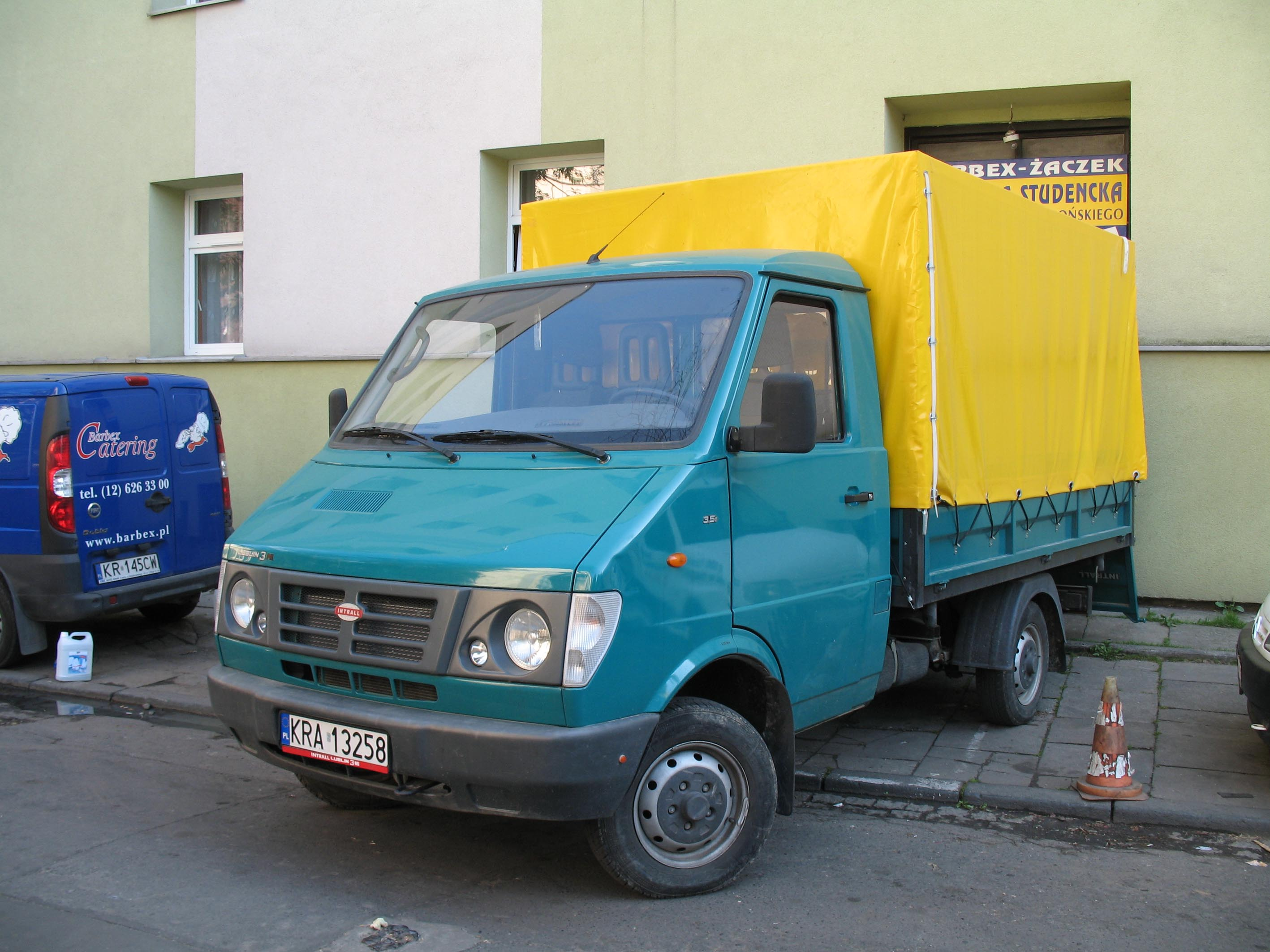 Intrall Lublin 3 Mi 3.5t in Kraków, Poland.